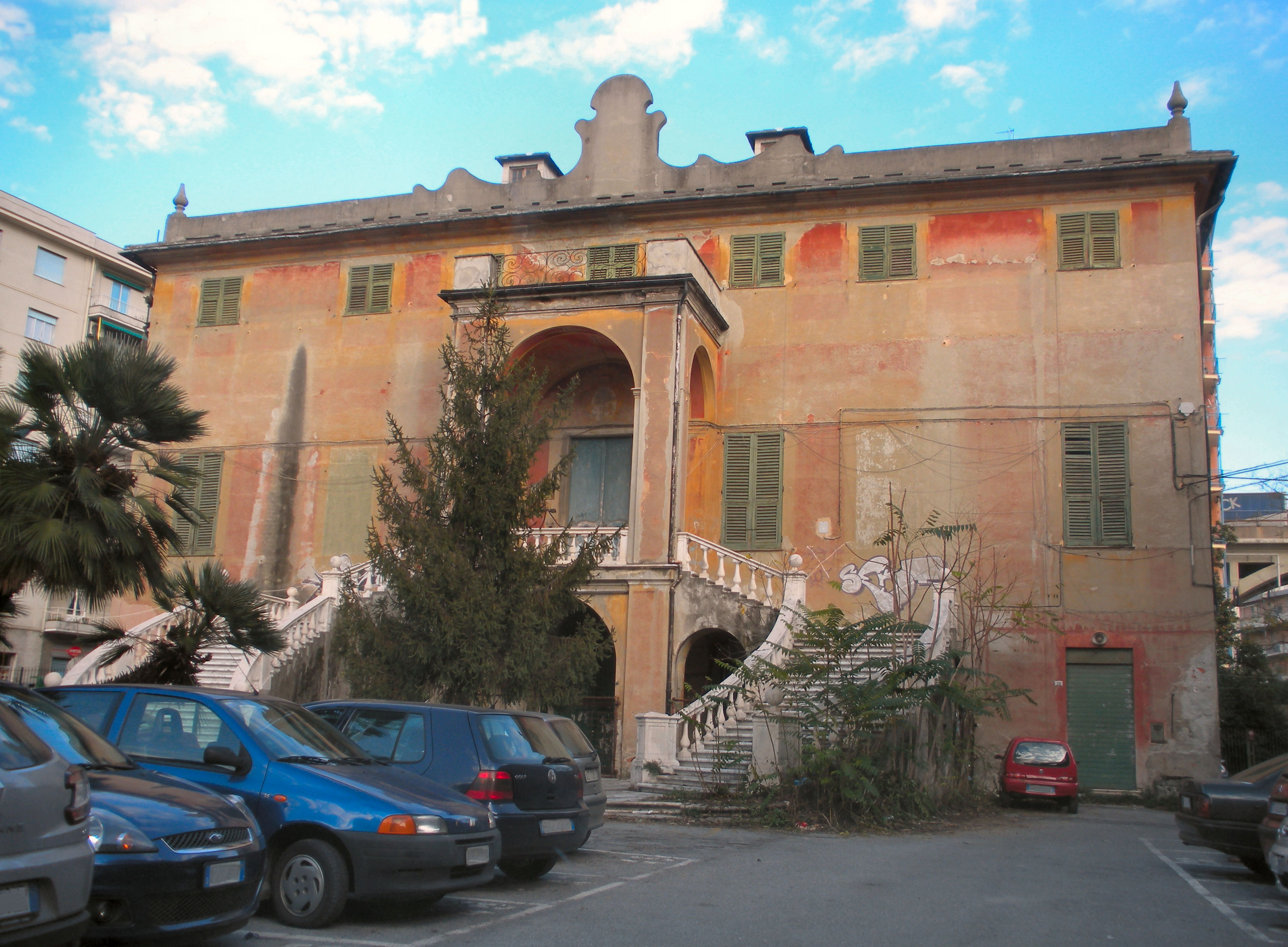 Genoa (Italy), quarter of Rivarolo, villa Pallavicini